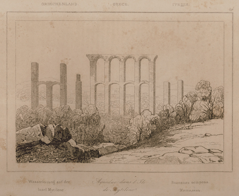 François-Charles-Hugues-Laurent Pouqueville. Grèce. Paris, Firmin Didot, MDCCCXXXV (1835)